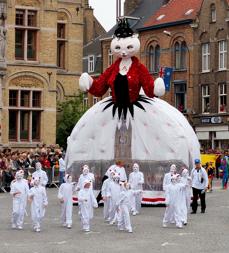 The giant cat Minneke Poes in the Kattenstoet (Cat Parade). Ieper, Belgium.